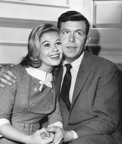 Photo of Andy Griffith and Sue Ane Langdon from the television program The Andy Griffith Show.